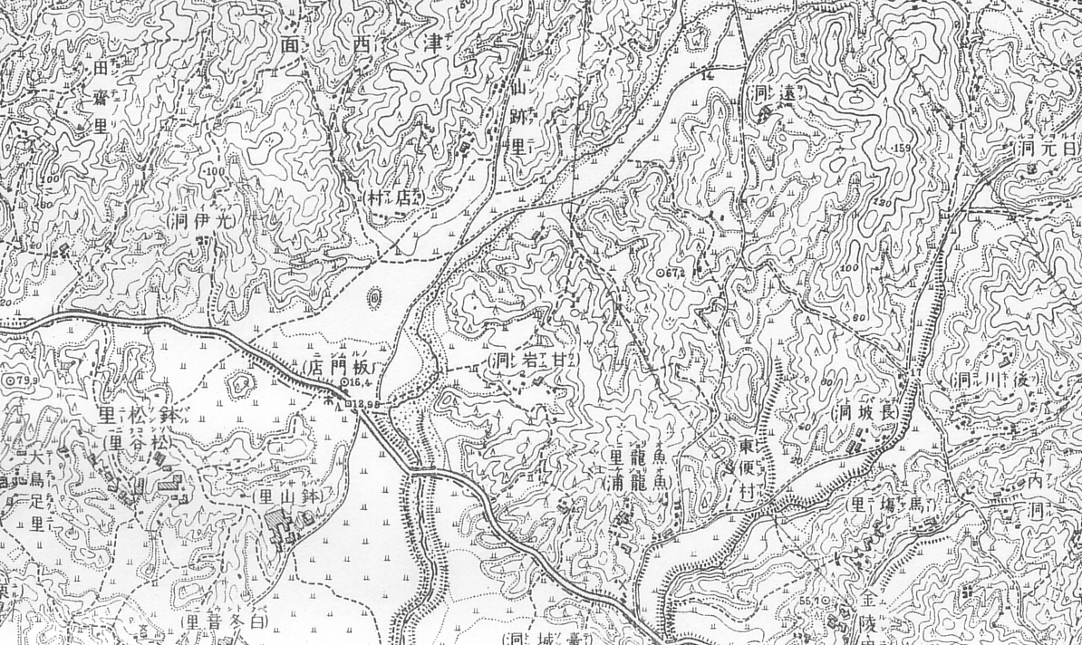 Hanmonten(Panmunjeom) map circa 1938